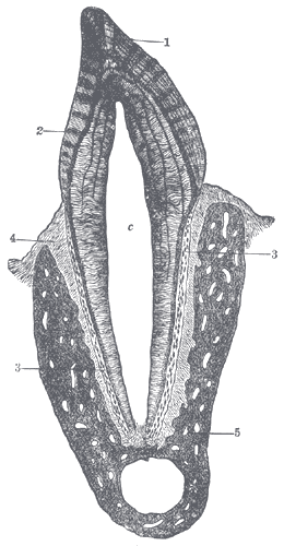 Vertical section of a tooth in situ. X 15. c is placed in the pulp cavity, opposite the neck of the tooth; the part above it is the crown, that below is the root. 1. Enamel with radial and concentric markings. 2. Dentin with tubules and incremental lines. 3. Cement or crusta petrosa, with bone corpuscles. 4. Dental periosteum. 5. Mandible.